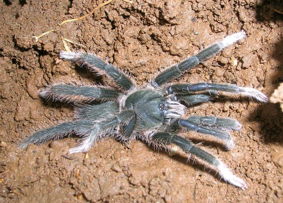 Mygalomorph spider. Wynaad, India. April 2006. Photograph by L. Shyamal Determined by Manju Siliwal manjusiliwal at as Annandaliella travancorica Hirst, 1909 belonging to family Theraphosidae